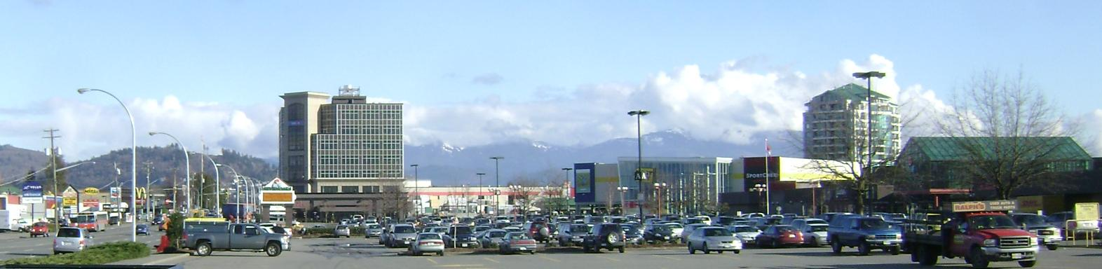 Photo I took of downtown abbotsford